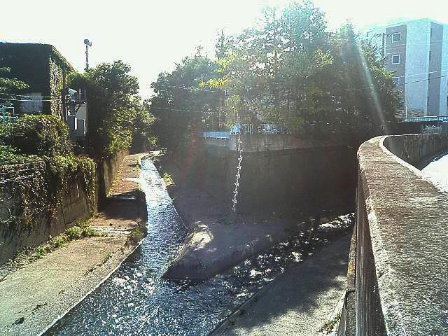 Confluence of Kandagawa River and Zenpukujigawa River, Nakano, Tokyo, Japan.